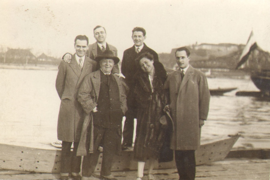 Photograph of dr Kamenko Subotić (1870-1932), writer and librarian of Matica srpska with a group of friends (ca. 1930). Srpski (latinica): Fotografija dr Kamenka Subotića (1870-1932), književnika i bibliotekara Matice srpske sa grupom prijatelja (oko 1930).